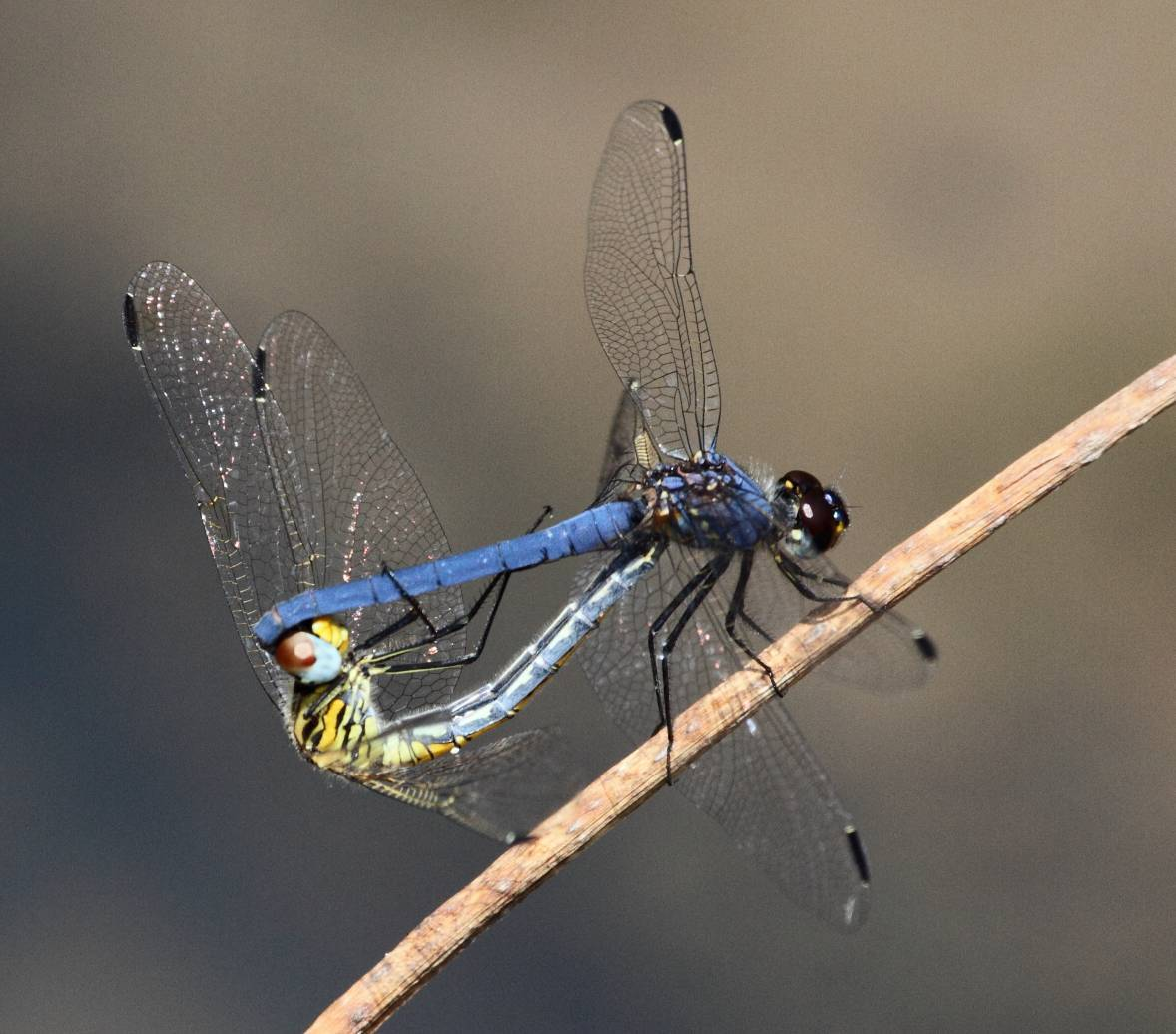 Mating pair of Dorsal Dropwings (Trithemis dorsalis) at Paulpietersburg, KwaZulu-Natal, South Africa.